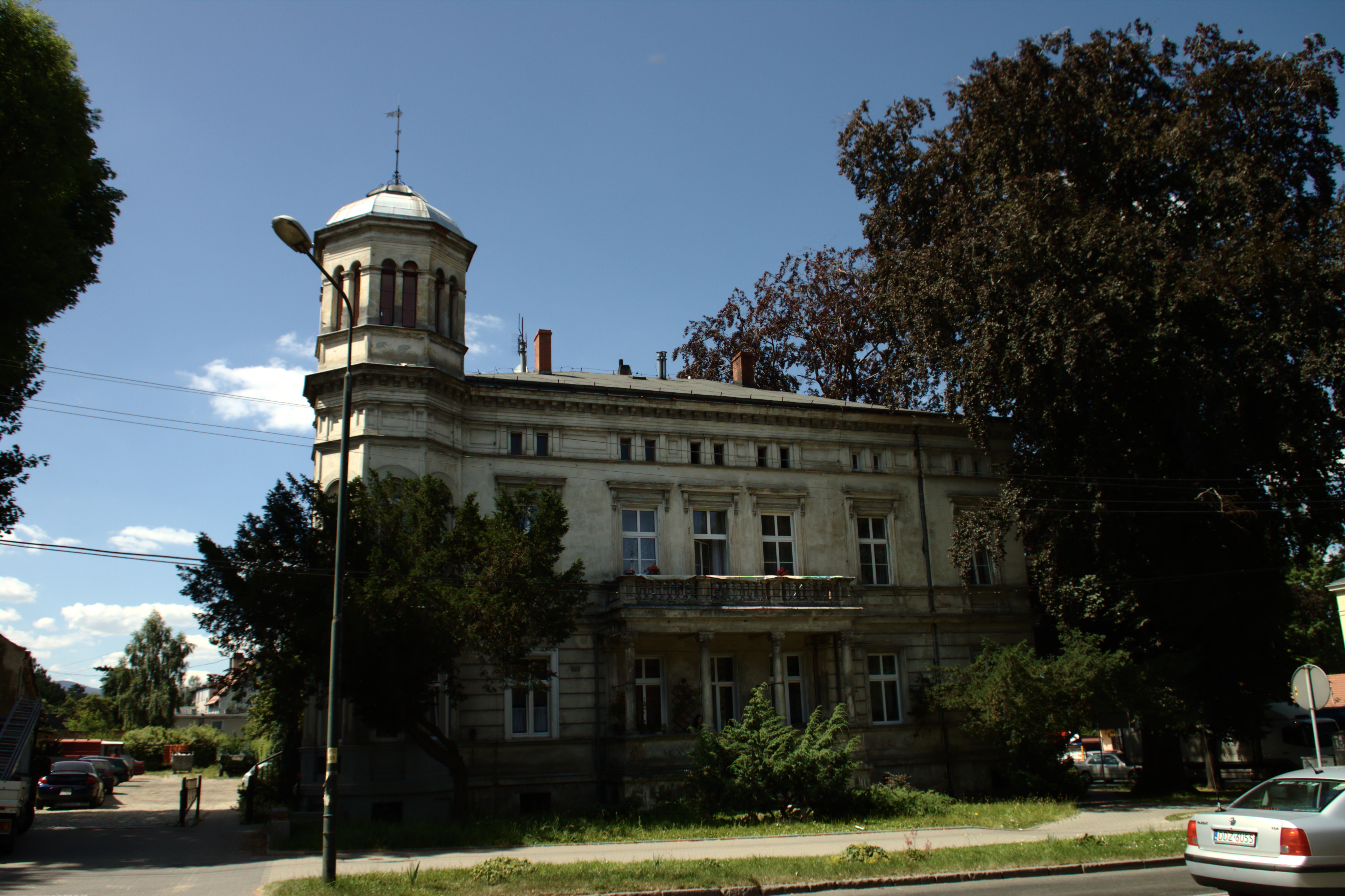 A building at Świdnicka Street, that served as a hiding place for a georgian officer, Dzierżoniów, Poland